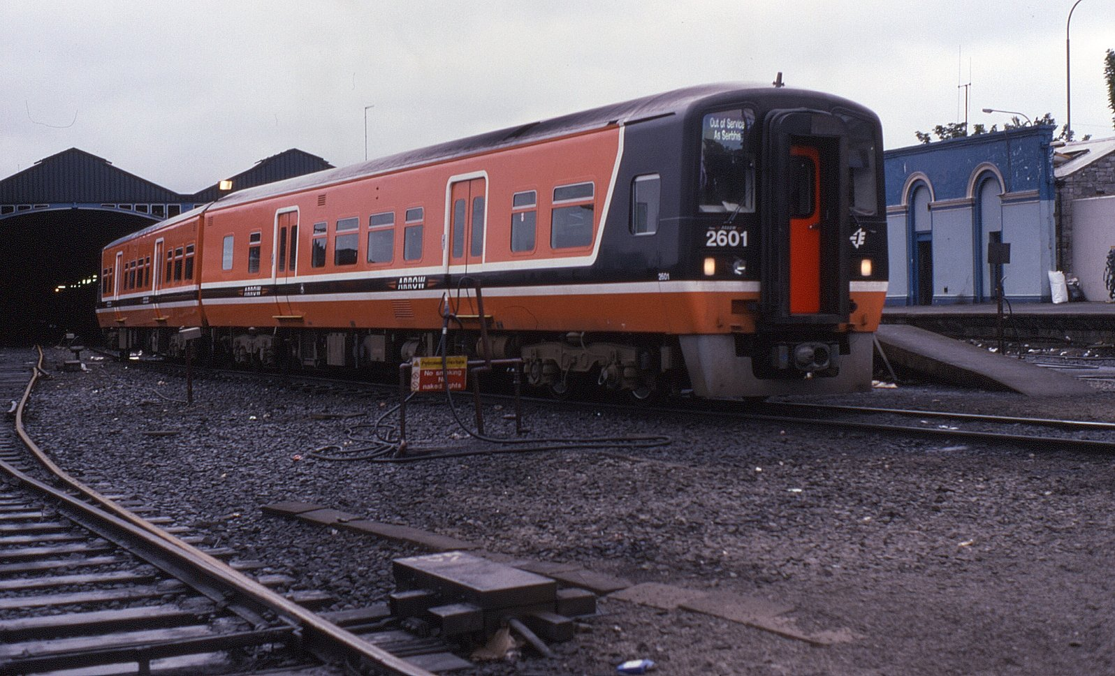 The first batch of Diesel Multiple Units introduced from the mid-1990s which replaced a lot of loco hauled services or to boost suburban services to such cities as Dublin. 8 class 2600 sets were built in Japan and were initially used on commuter services between Dublin Heuston and Kildare. Taken at Dublin Heuston on 16 May 1995 is unit no. 2601.